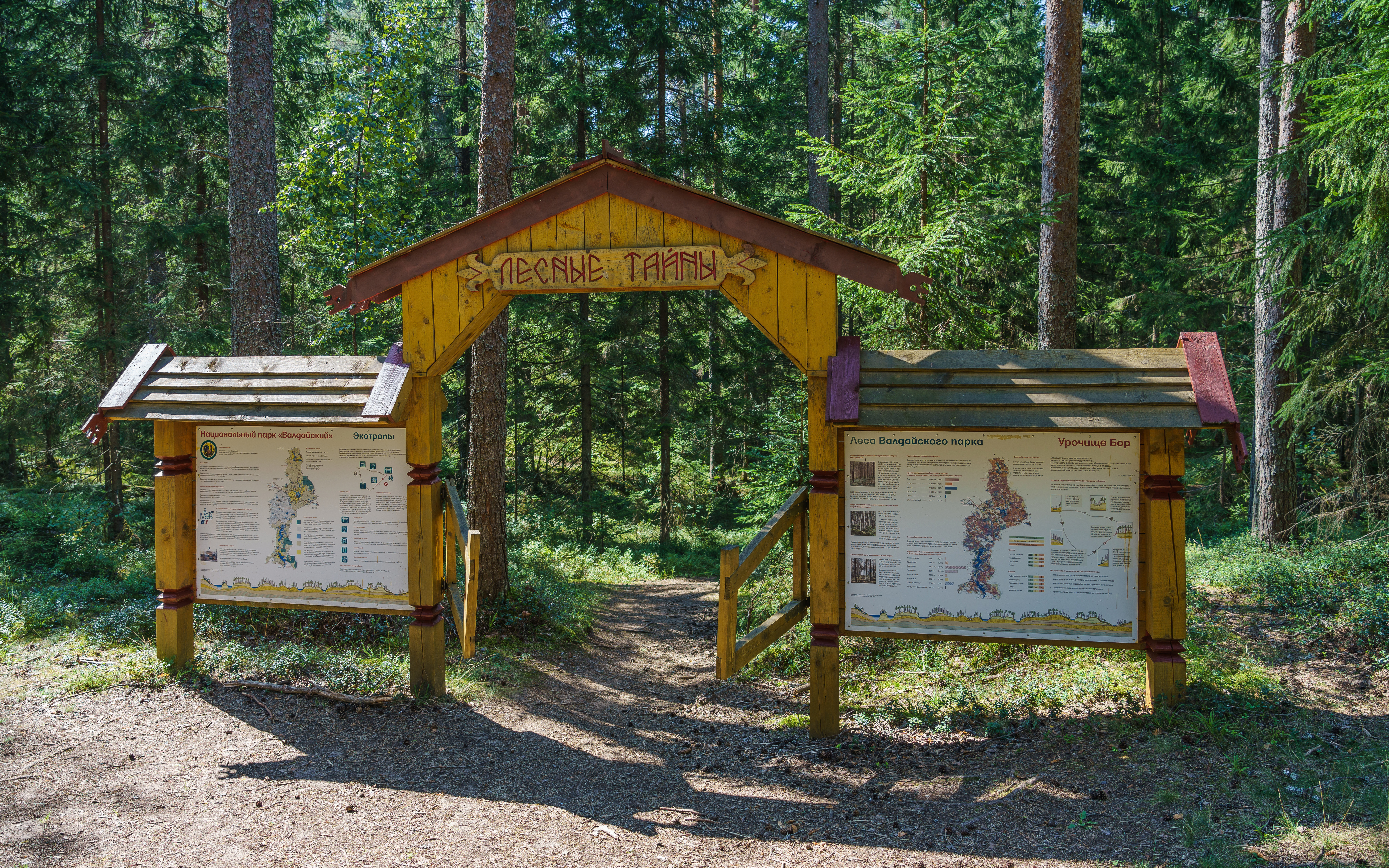 Forest in Valdai National Park, Novgorod Oblast, Russia